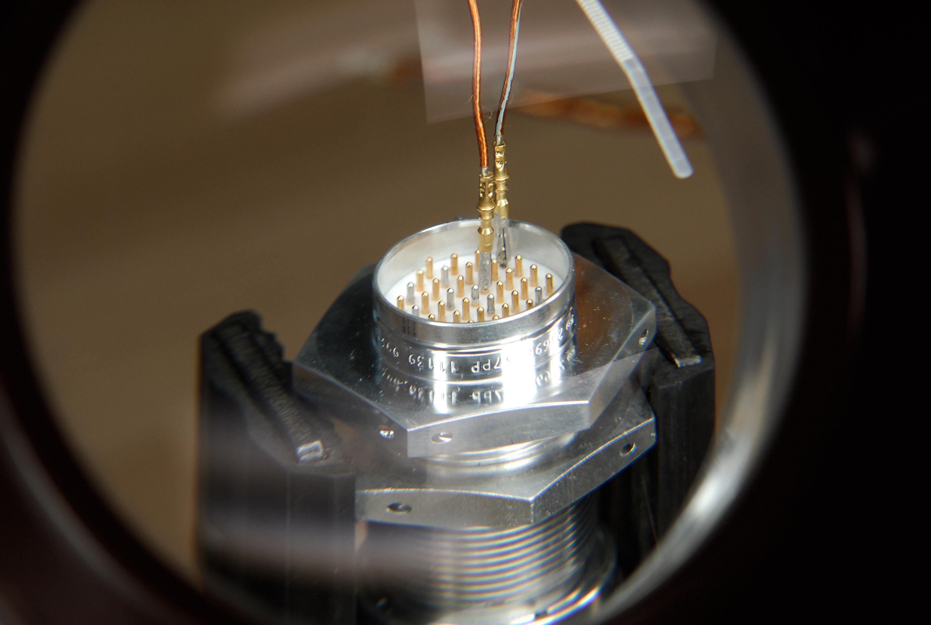 At a lab at NASA's Kennedy Space Center, the first two of nine pins have been soldered to the socket of the replacement feed-through connector that will be installed in the external fuel tank for space shuttle Atlantis' STS-122 mission. Two United Launch Alliance technicians, who performed this exacting task on the Centaur upper stage for Atlas and Titan launches in 1994, will be doing the soldering. Soldering the connector pins and sockets together addresses the most likely cause of a problem in the engine cutoff sensor system, or ECO system. Some of the tank's ECO sensors failed during propellant tanking for launch attempts on Dec. 6 and Dec. 9. Results of a tanking test on Dec. 18 pointed to an open circuit in the feed-through connector wiring, which is located at the base of the tank. The feed-through connector passes the wires from the inside of the tank to the outside. After the soldering is completed and the connector is reinstalled, shuttle program managers will decide on how to proceed. The launch date for mission STS-122 is under review.